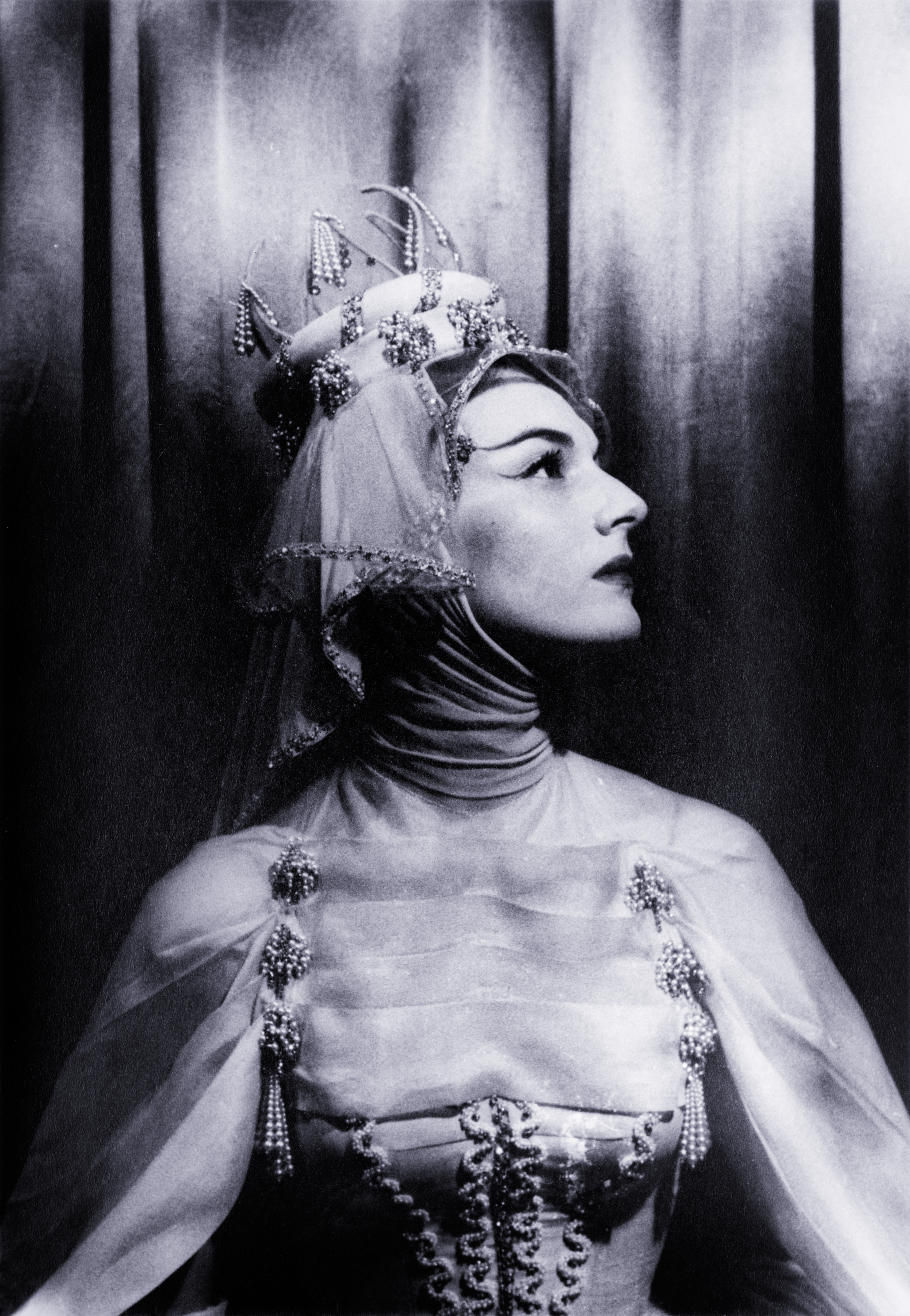 Actress Marian Seldes, as Bertha in Ondine by Jean Giraudoux.